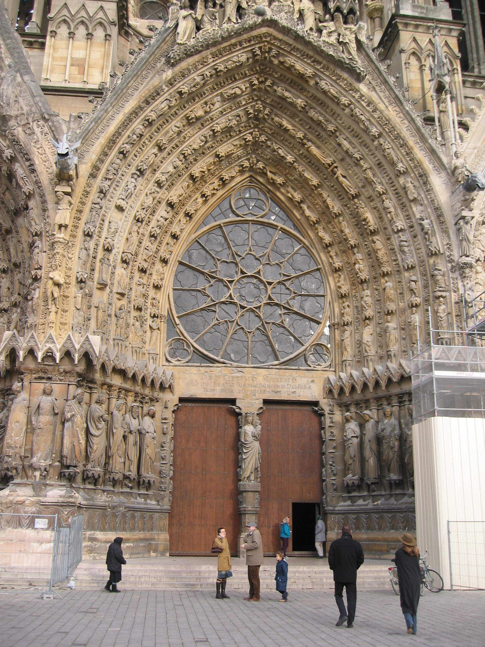 Cathedral in Reims, France.